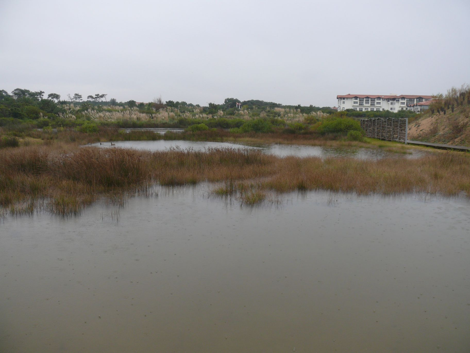 The environmental park Izadia, in Anglet (Pyrénées-Atlantiques, France)